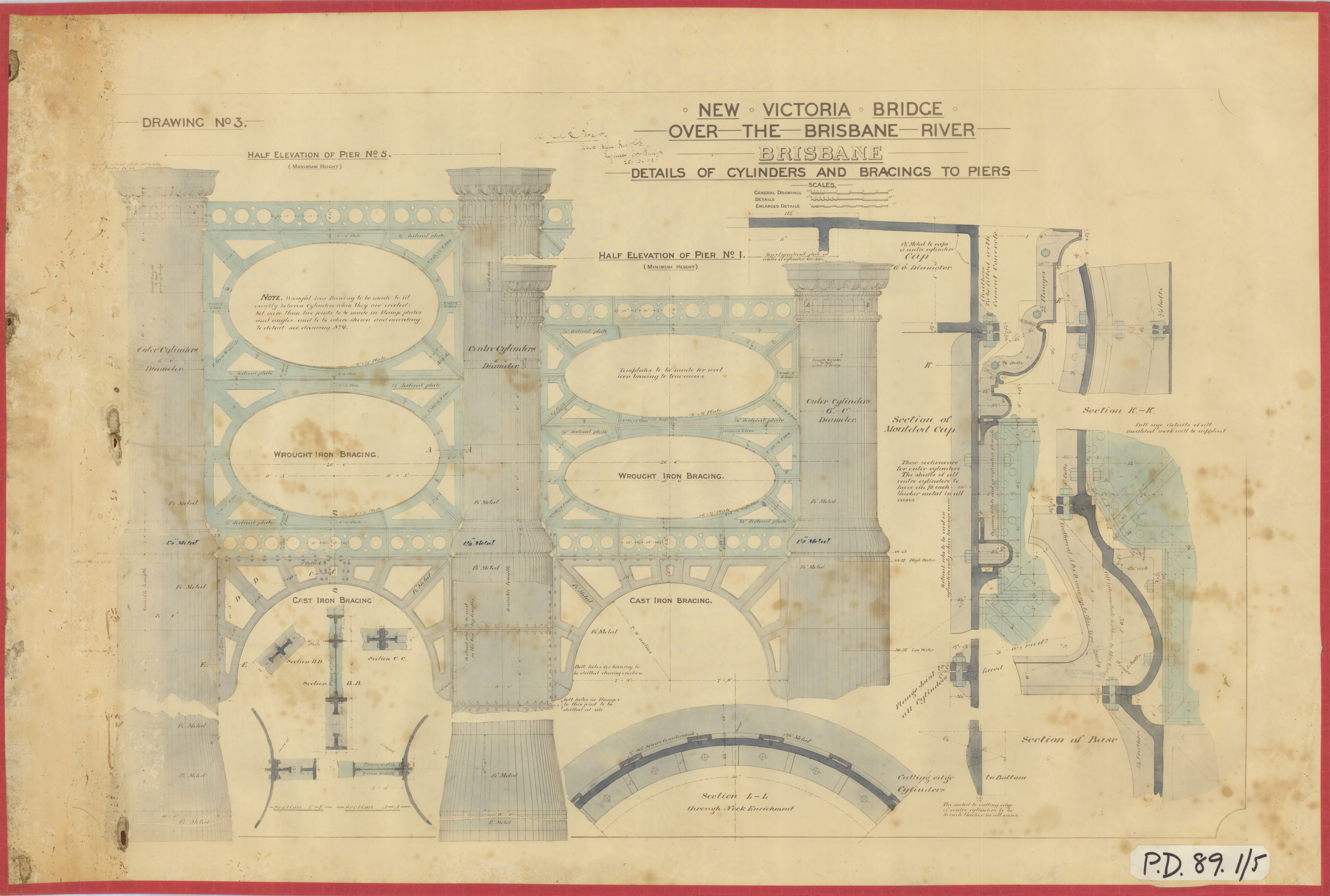 Victoria Bridge, Brisbane, Details of cylinders & bracings to piers, 1893